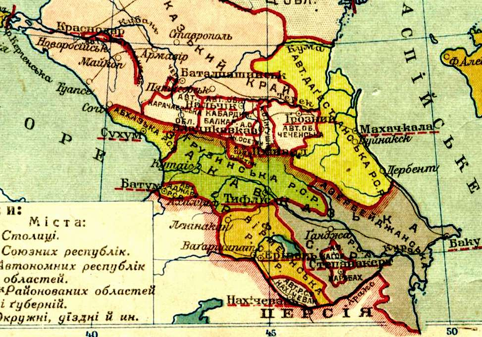 Map of the European part of the USSR in 1929.